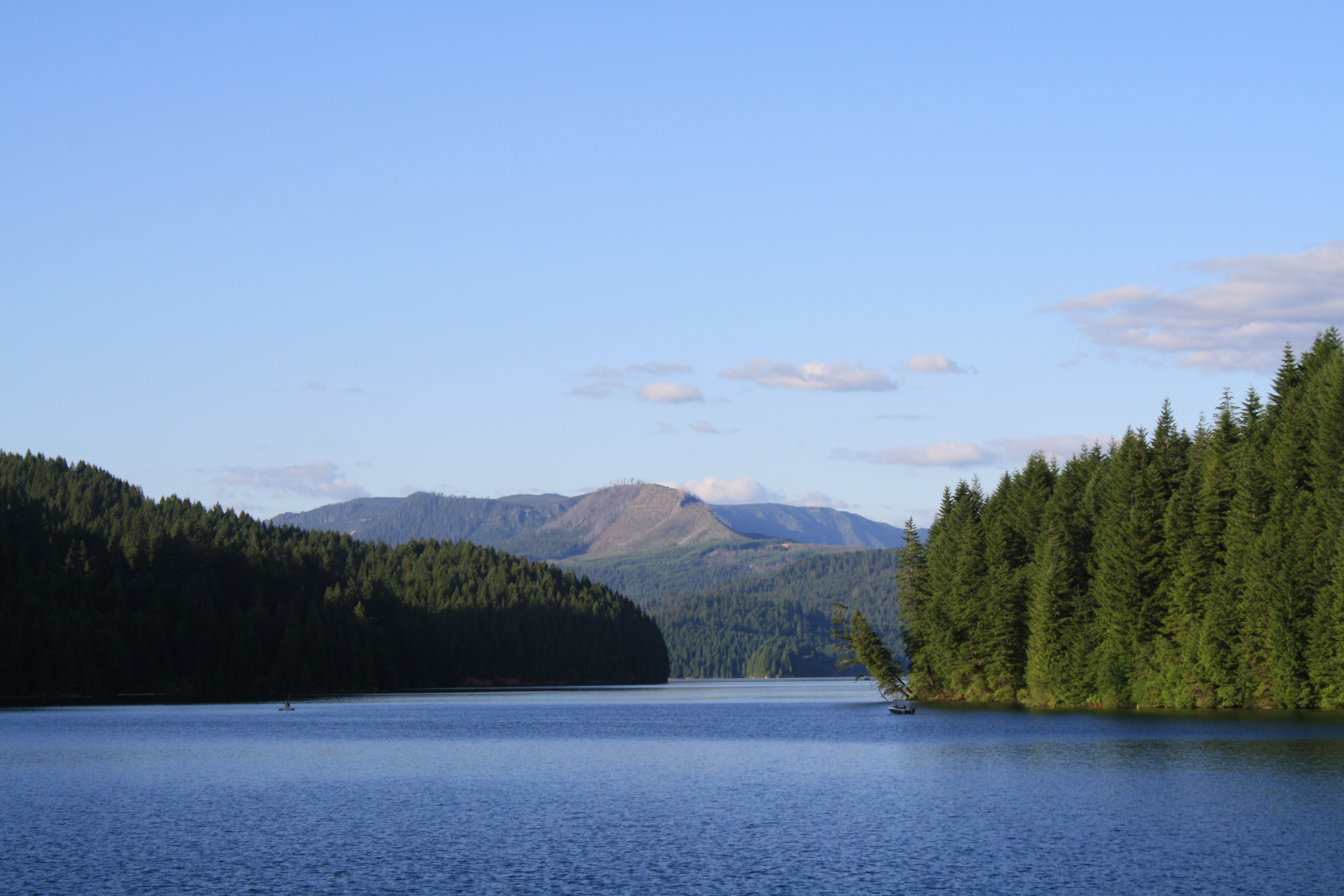 Green Peter Reservoir located northeast of Sweet Home, Oregon